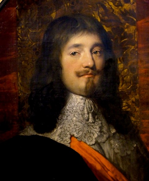 Portrait of Richard Vaughan, 2nd Earl of Carbery (c.1600-1686)